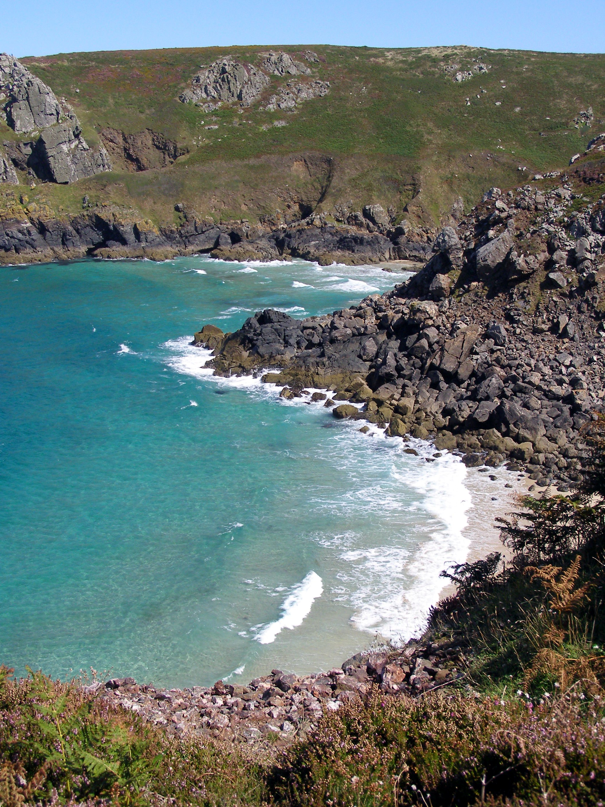 Veor Cove from the west, with Zennor Head beyond. Near Zennor, Cornwall, U.K.